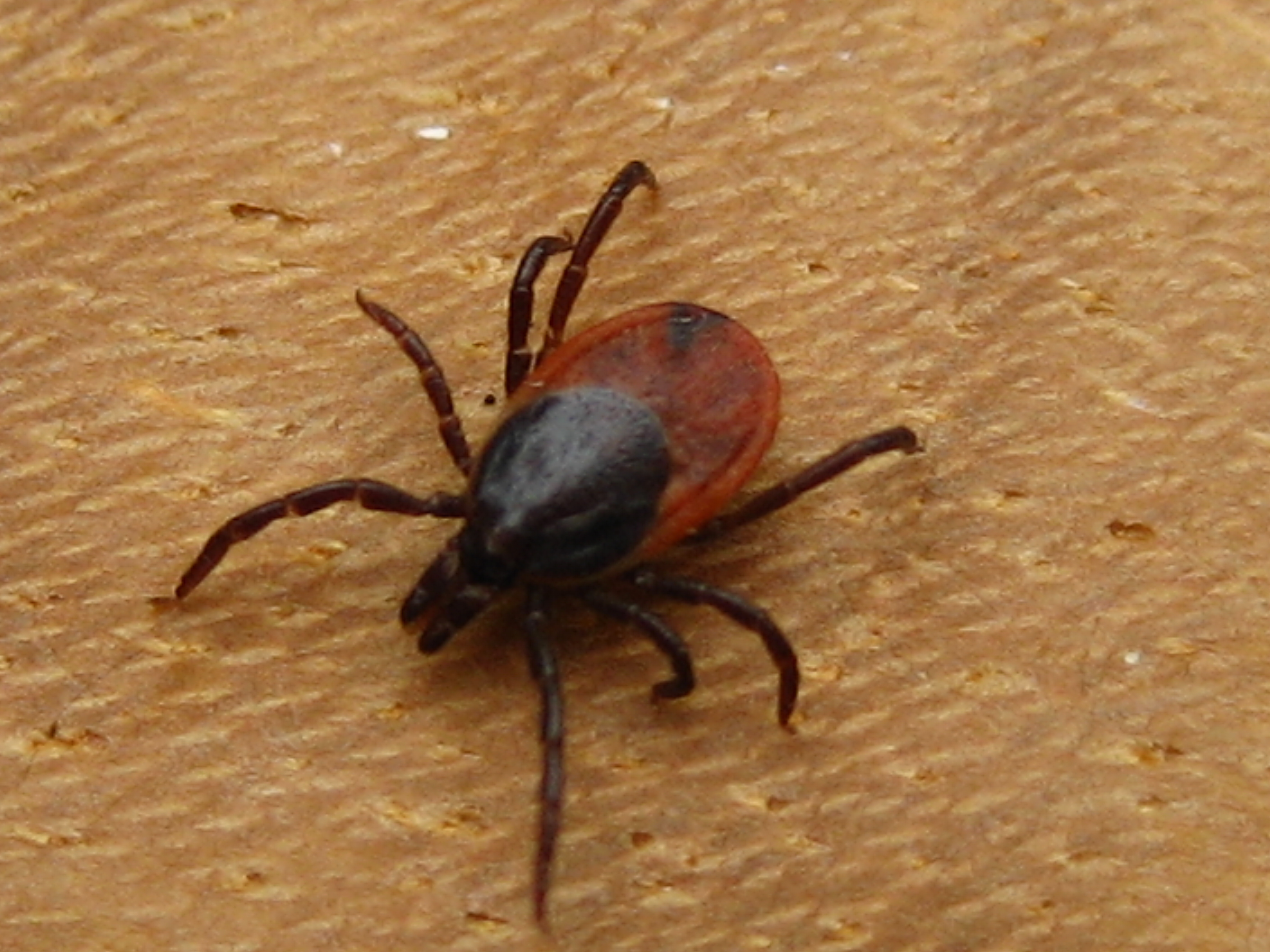 a tick on skin,about 4 mm(female) ,Jena,Germany